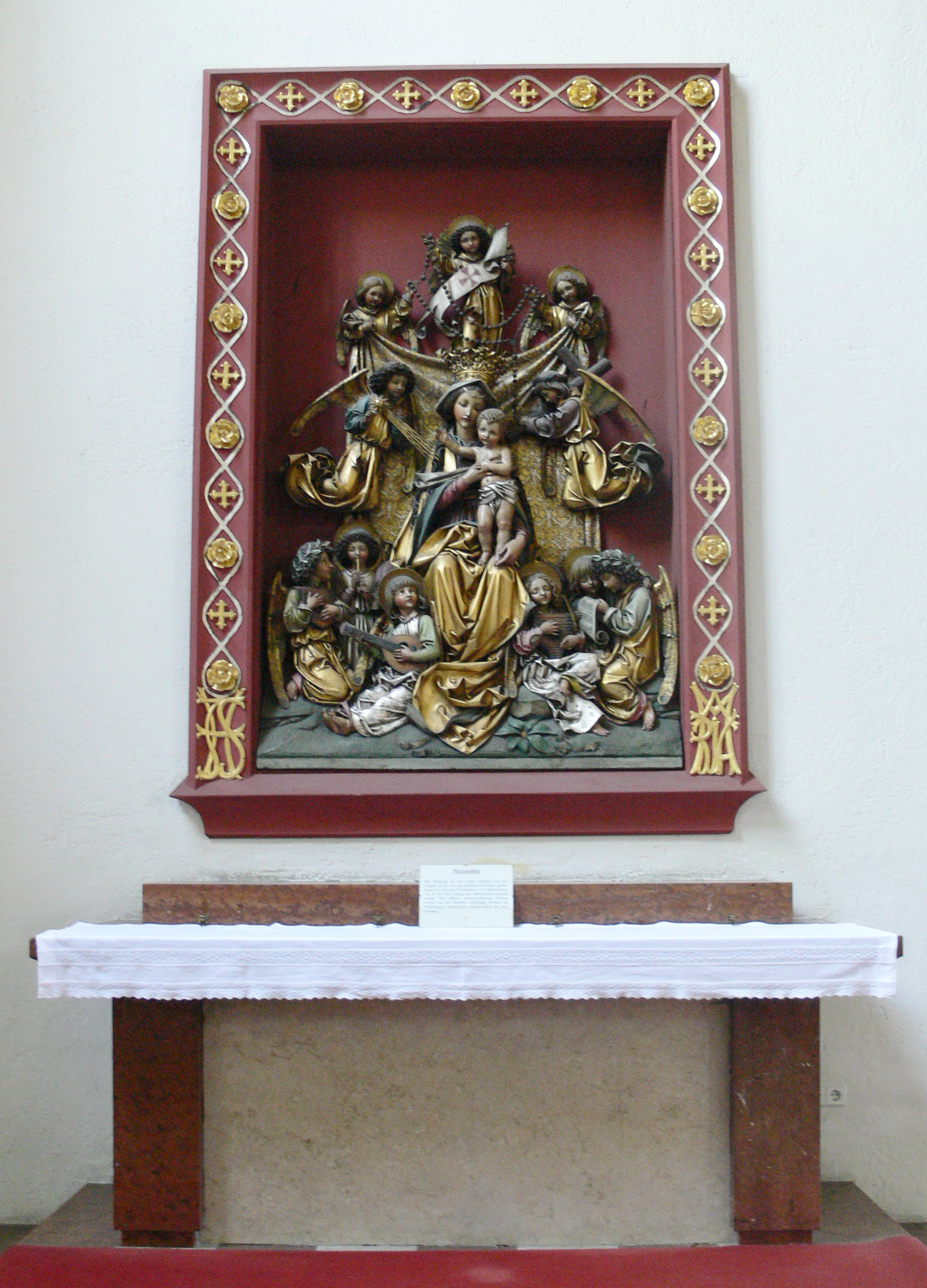 Salzburg, Andräkirche Marienaltar (erhaltener Rest) von Bachlechner, Anfang 20. Jh. Josef Bachlechner (1871–1923) DescriptionAustrian sculptorDate of birth/death 28 October 1871 17 October 1923 Location of birth/death Bruneck im Pustertal Hall in TirolAuthority control : Q1704243 VIAF: 812859 ISNI: 0000 0000 2010 9872 LCCN: no2017020935 GND: 119018322 RKD: 213378 WorldCat creator QS:P170,Q1704243